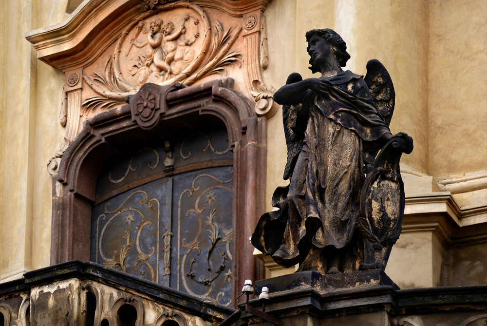 Sculpture on stairway to st. John of Nepomuk's church